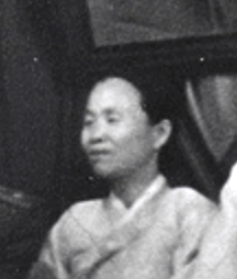 North Korean politician Pak Jong Ae